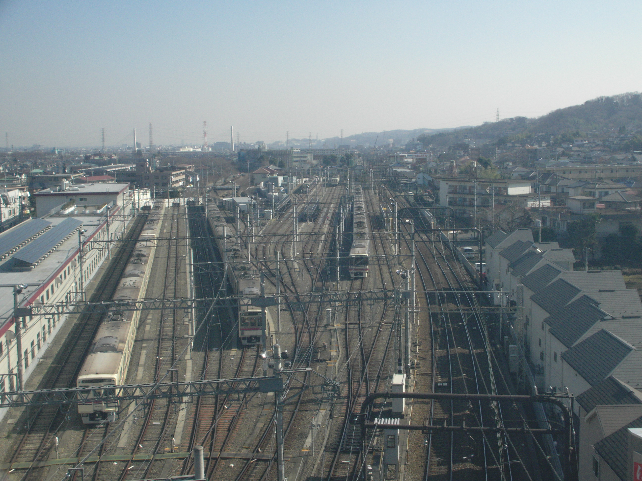 Takahatafudo Inspection Depot seen from Tama Monorail Takahatafudo Station